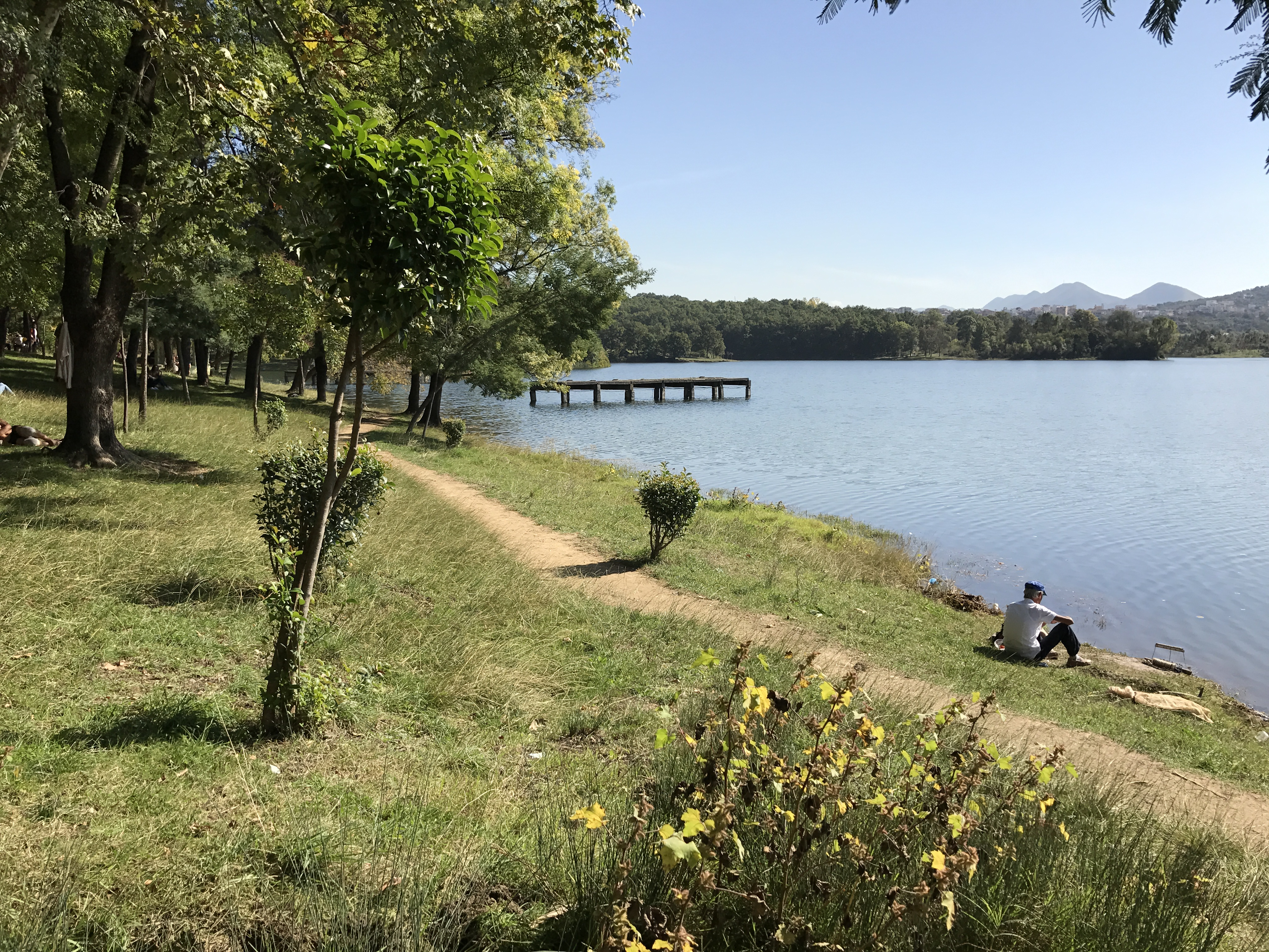 Tirana Lake - October 2016